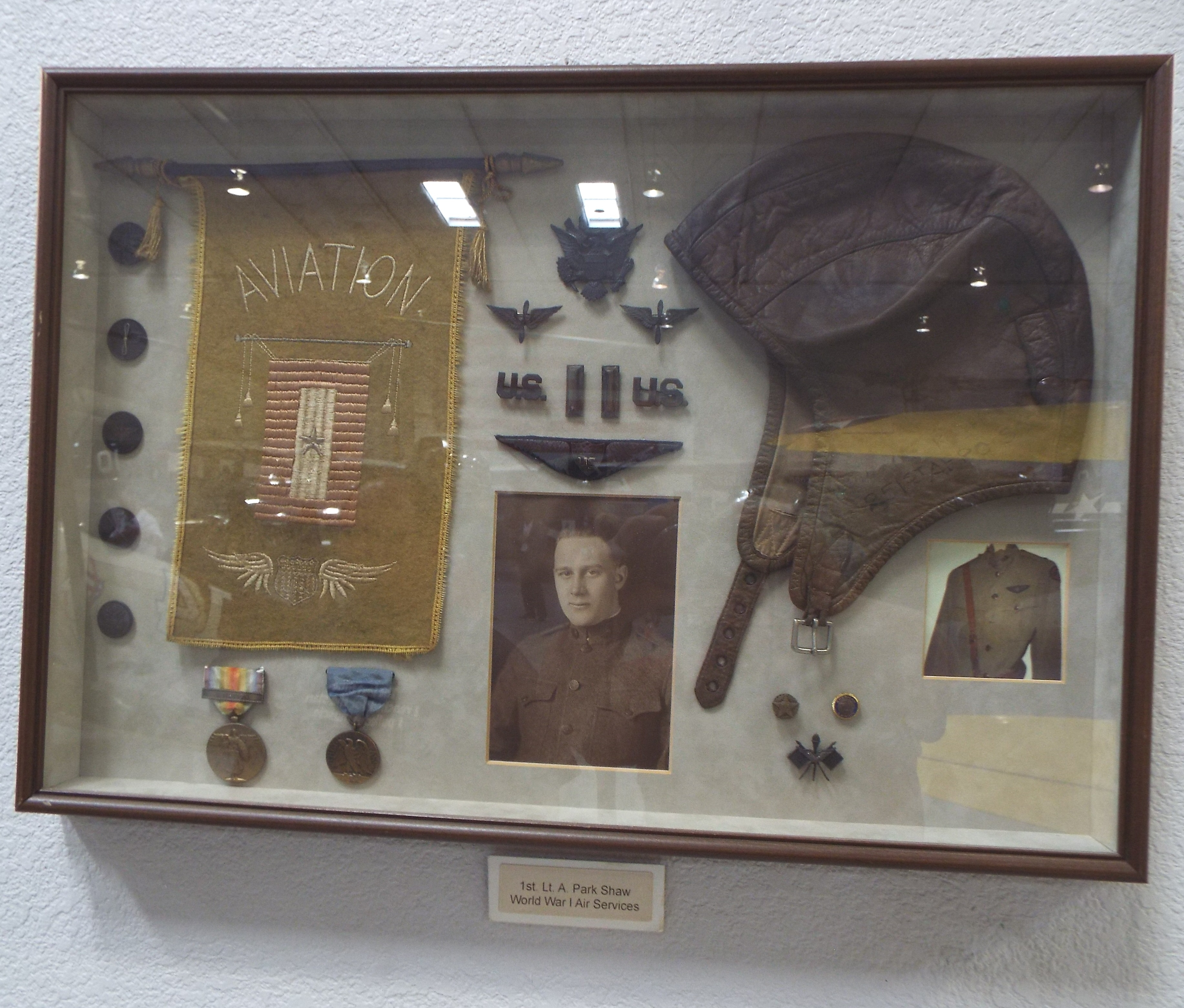 Mesa-Arizona Commemorative Air Force Museum-Lt. A Park Shaw exhibit